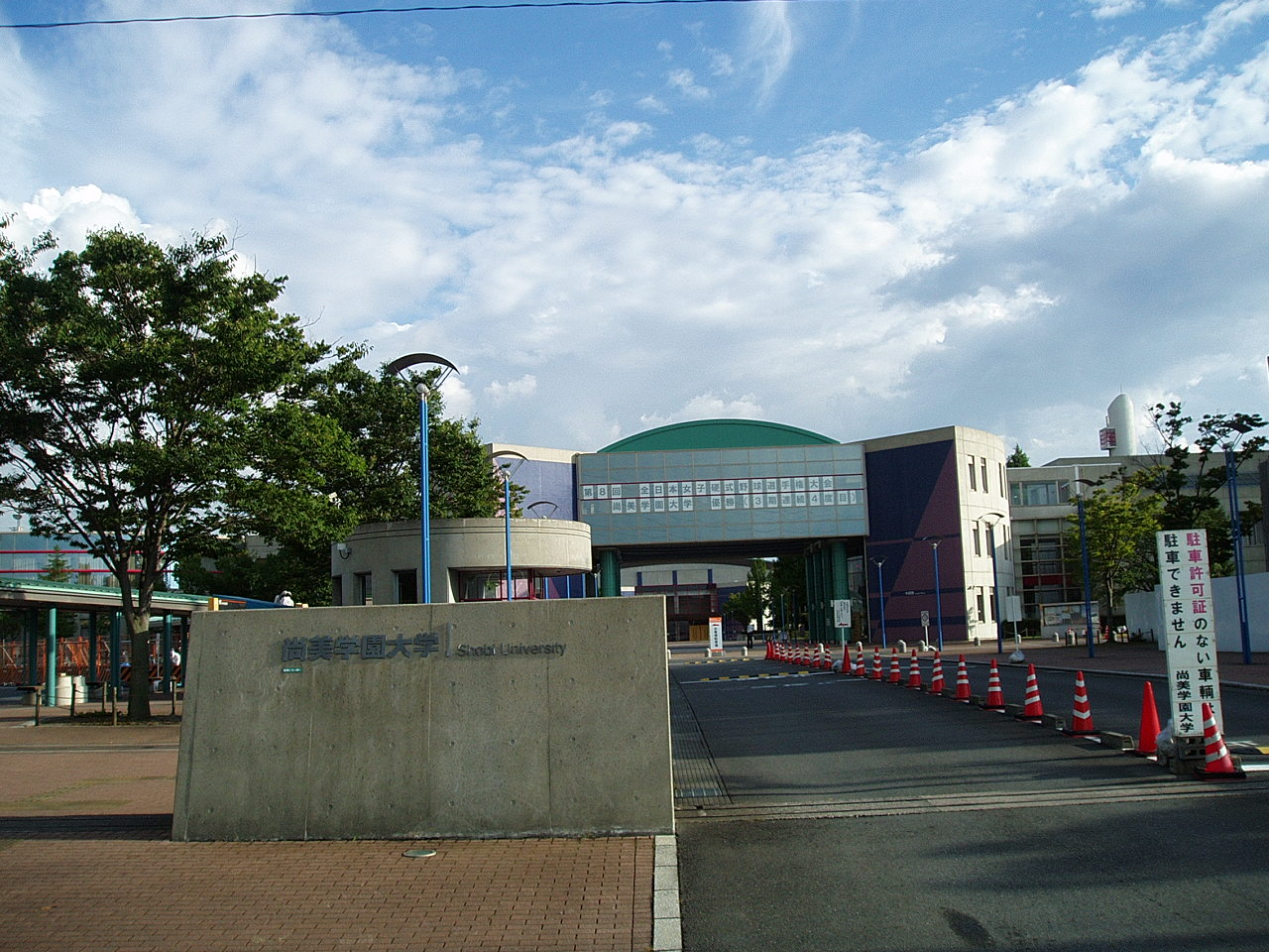 The main entrance of Shobi University Kawagoe Campus in Kawagoe City, Saitama Prefecture, Japan